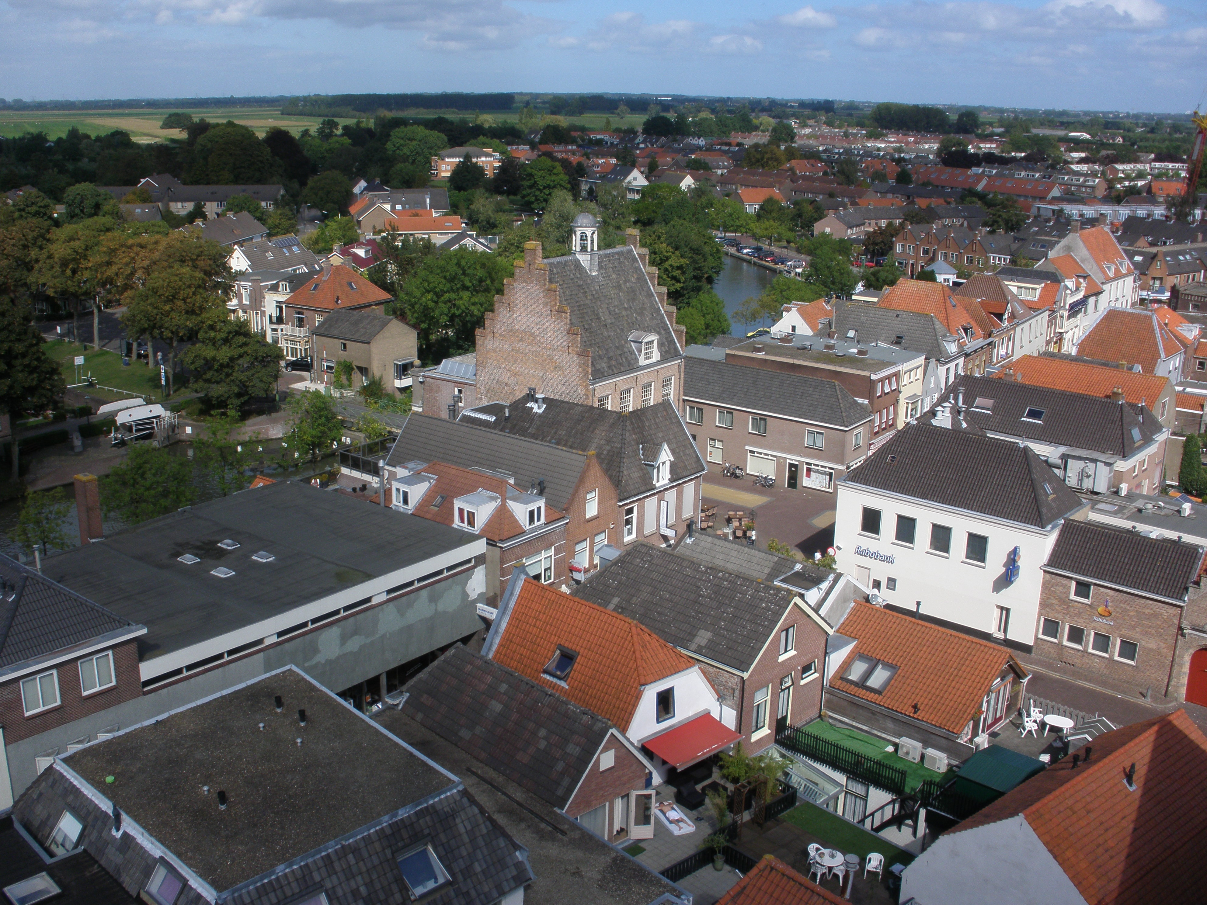 Montfoort in the Dutch province of Utrecht seen from above.